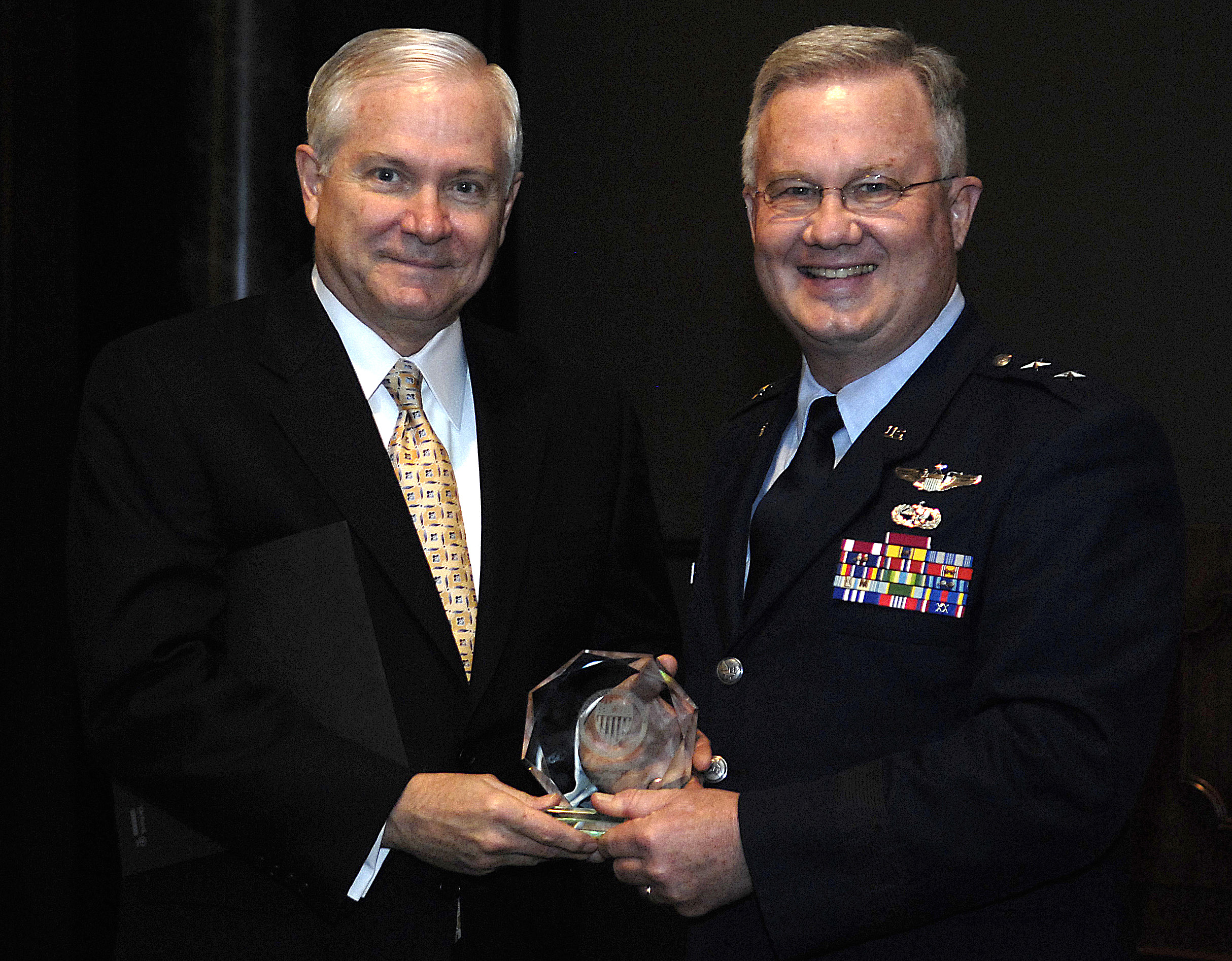 U.S. Air Force Maj. Gen. Roger P. Lempke, Adjutant General of the Nebraska National Guard, presents an award to Secretary of Defense Robert M. Gates during the National Guard Bureau's Senior Leadership Meeting in Washington, D.C., Feb. 27, 2007.